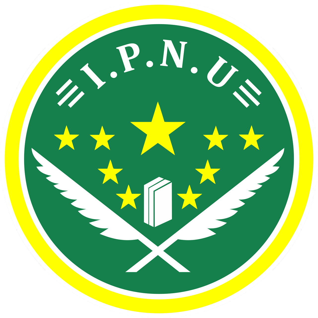 LOGO IPNU RESMI KONGRES 2018